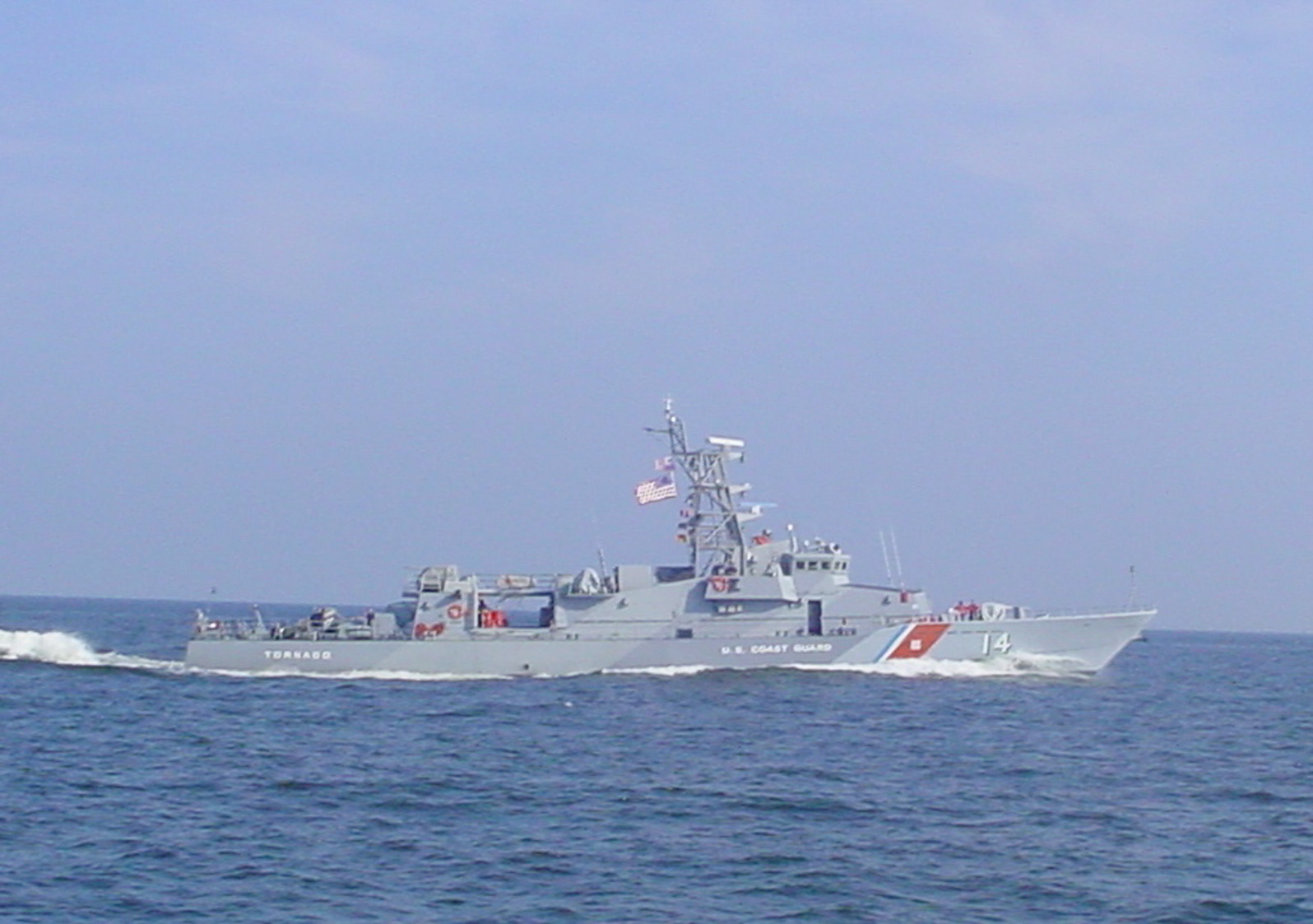 BILOXI, Miss. (Dec. 6, 2004) USCGC Tornado (WPC-14)